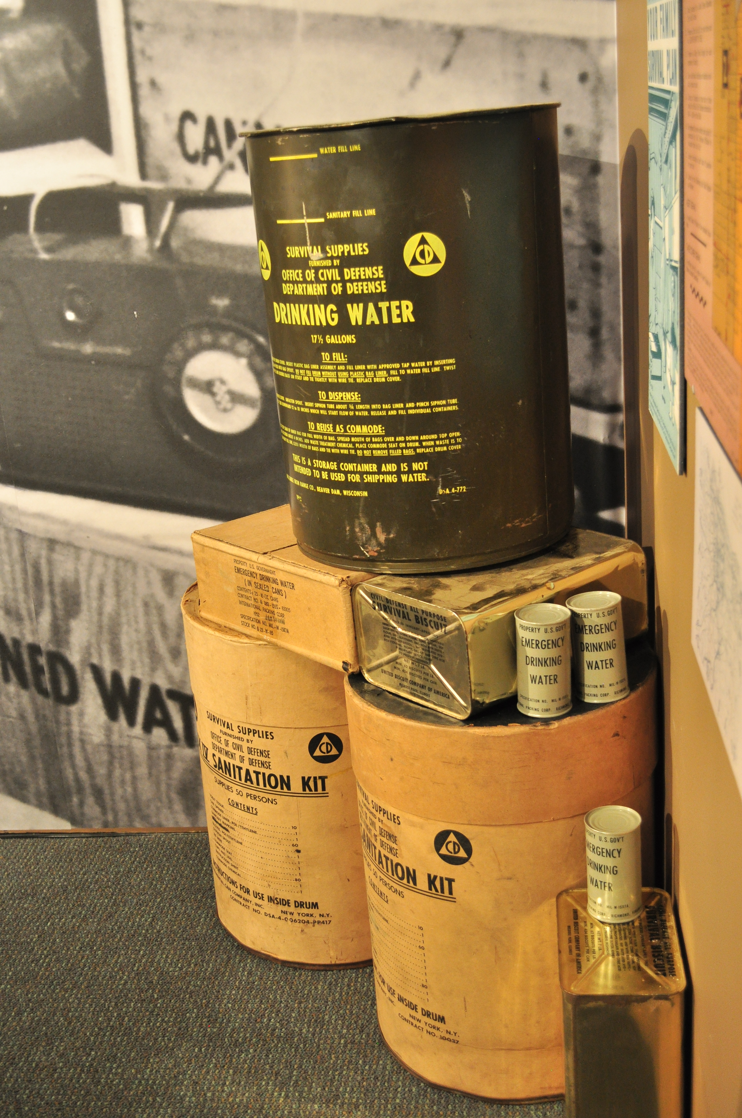 U.S. Civil Defense supplies from the Cold War era, on exhibit as part of Glasnost & Goodwill: Citizen Diplomacy in the Northwest, an exhibit at the Washington State History Museum, Tacoma, Washington, U.S. October 7, 2017 - Sunday, January 21, 2018.